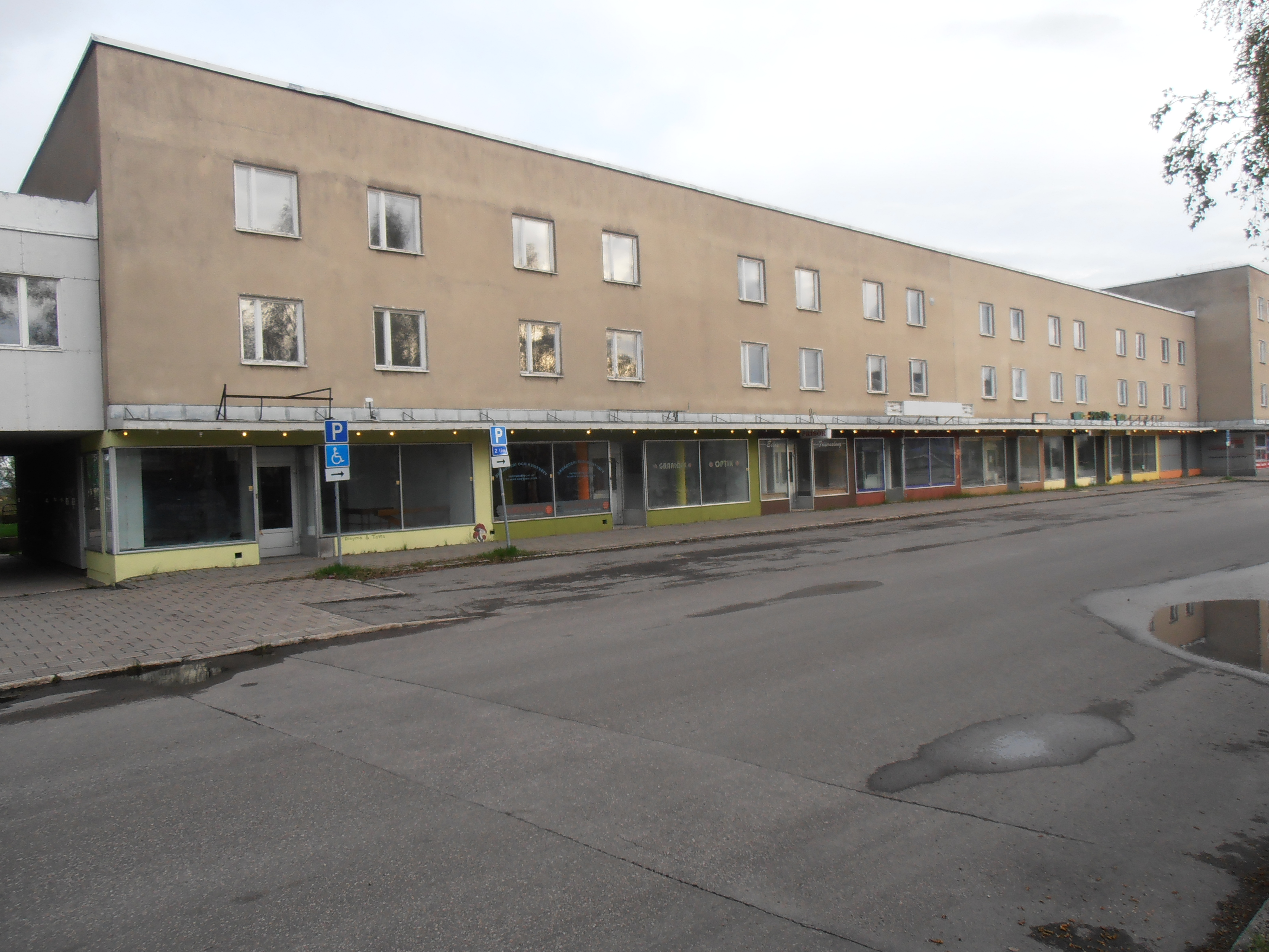 Empty commercial properties in Malmberget